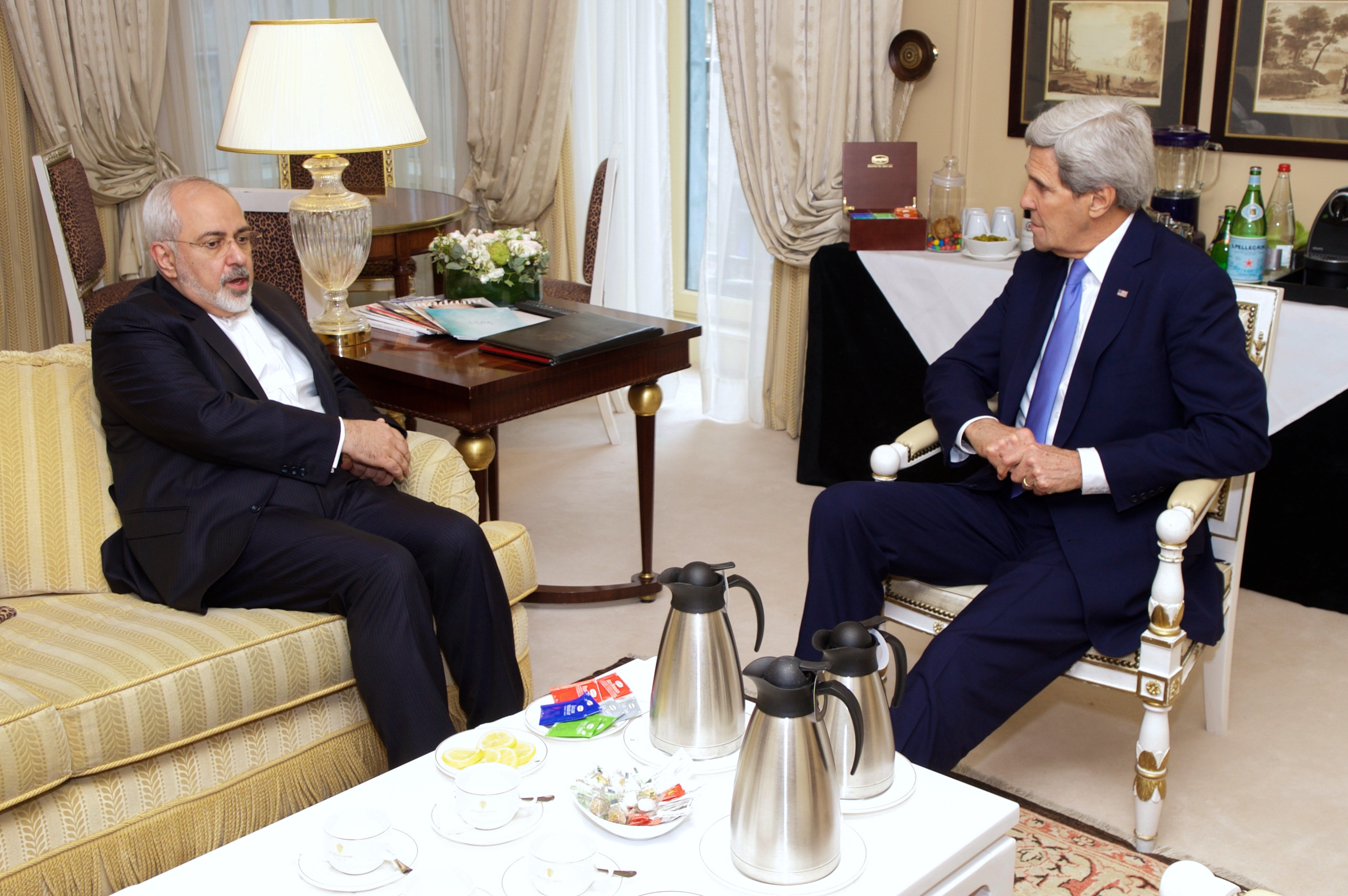 U.S. Secretary of State John Kerry meets with Iranian Foreign Minister Javad Zarif in Paris, France, on January 16, 2015, to continue their negotiations over the future of Iran's nuclear program. [State Department photo/ Public Domain]